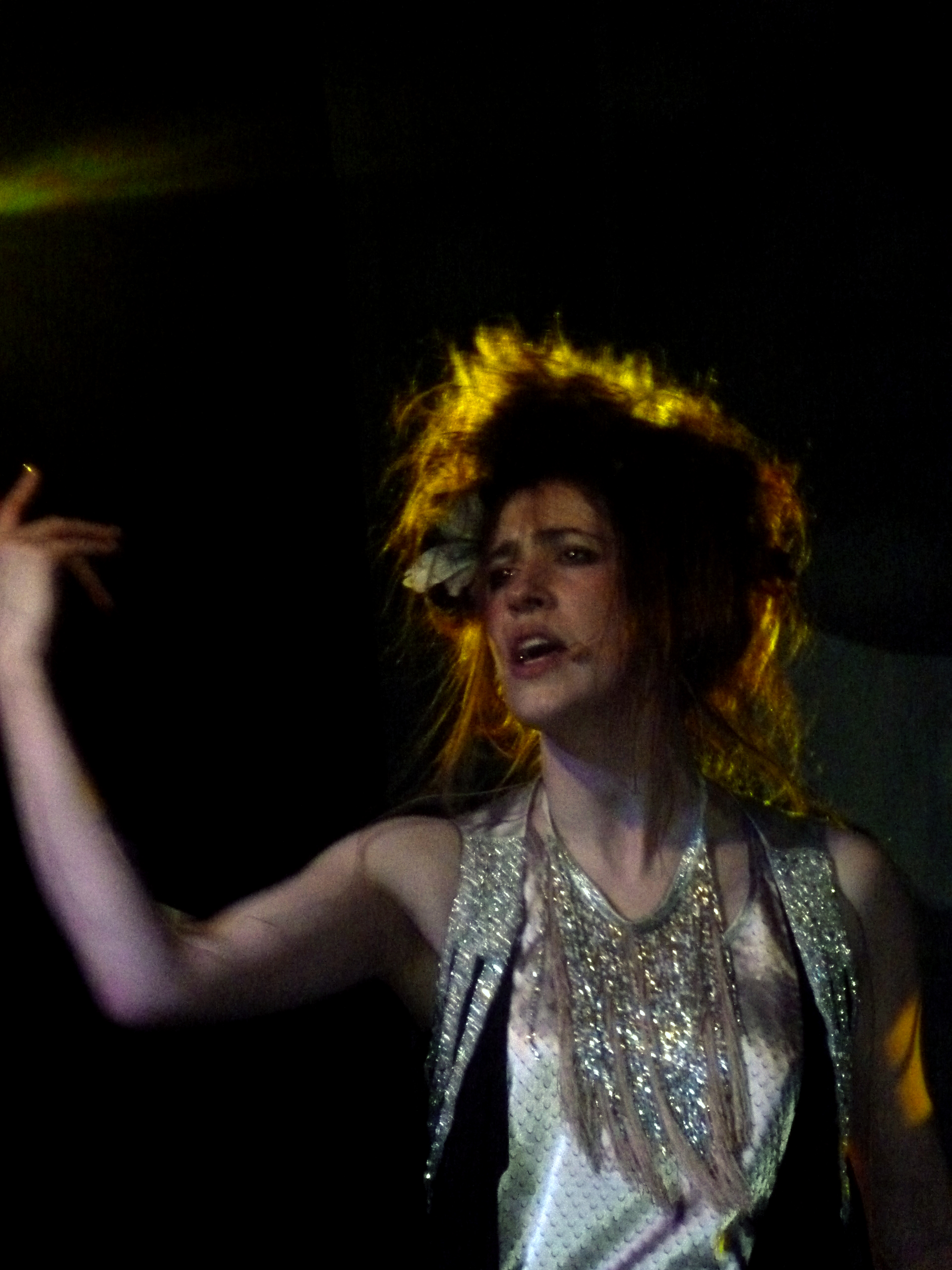 Imogen Heap at The Stage in the Leeds Met Students' Union, February 9 2010.